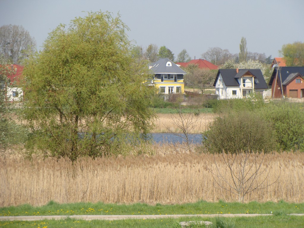 Śrem, Ecological Park of name of Włodzimierz Puchalski.